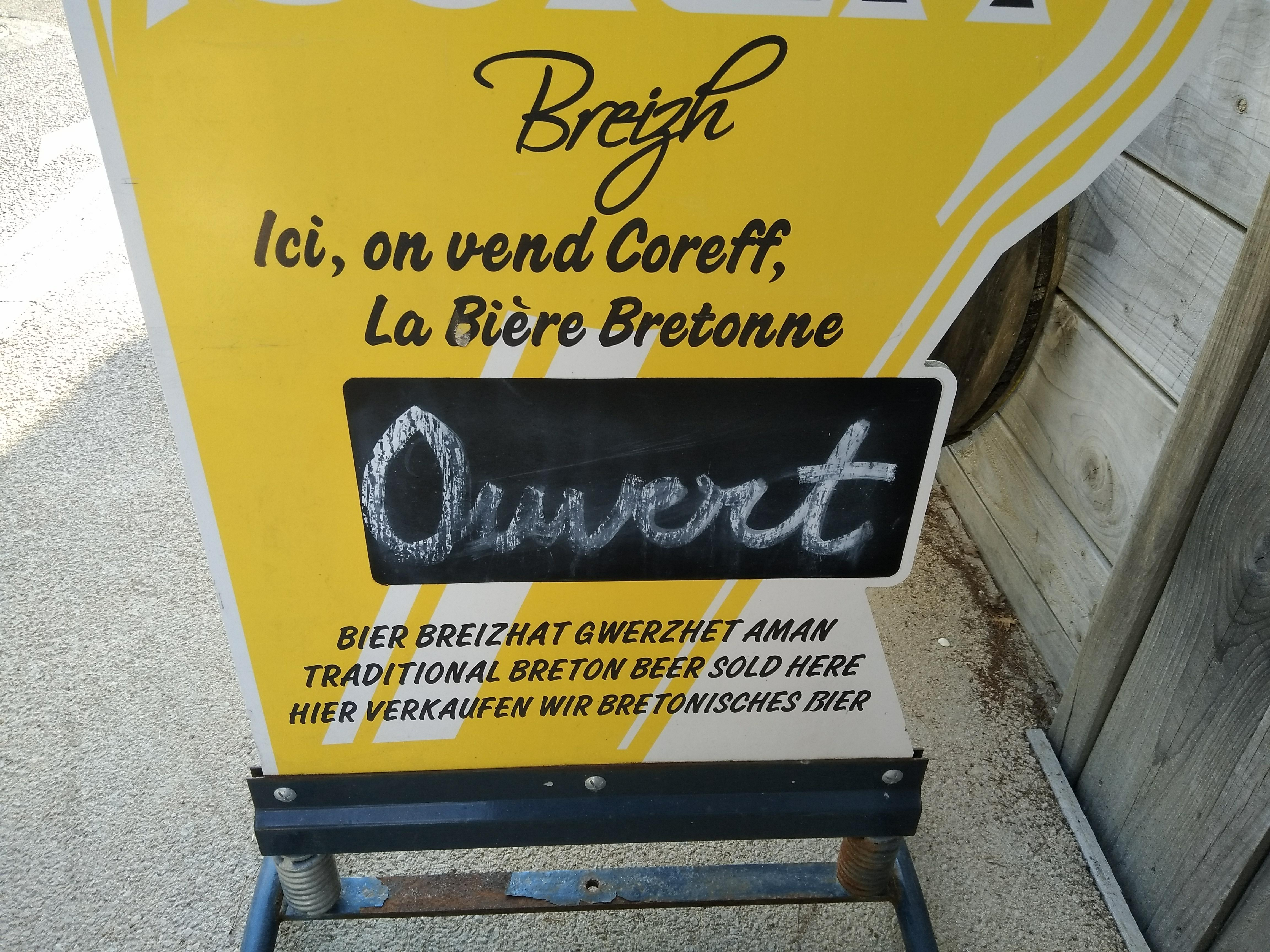 Multilingual sign near a bar in Quimiac (Loire Atlantique, France) in French, Breton, English and German "Brezih. Ici on vend Coreff, la bière bretonne. Bier breizhat gwerzhet aman. Traditional breton beer sold here. Hier verkaufen wir Bretonisches Bier"